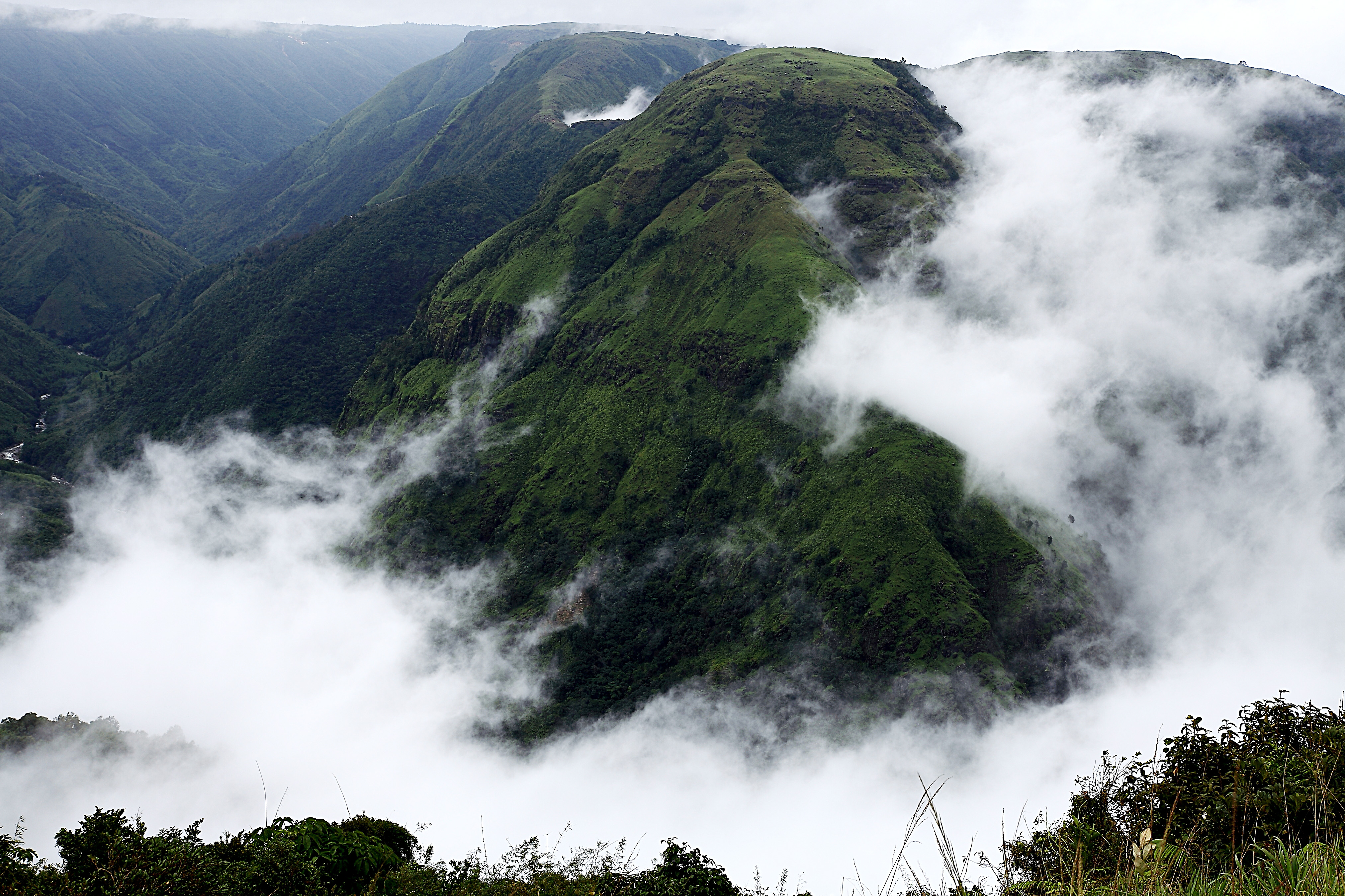 Geography Life Scene Meghalaya India